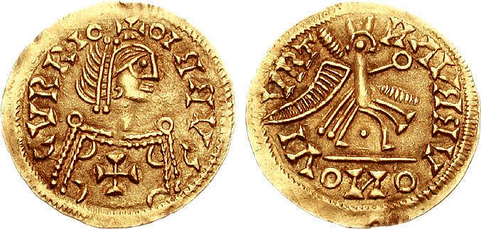 Visigoths, Spain. Leovigild (?). AD 568-586. AV Tremissis (1.23 g, 6h). Toledo(?) mint. Struck circa AD 573-578. CVRRIO + OIRRVC (retrograde), diademed and draped bust right; cross with crescents at corners on drapery / VI-VRT- N (N retrograde) LVRRV (final two Rs retrograde), Victory advancing right, holding palm and wreath, • between legs; ONO (N retrograde). Tomasini, Group C3, 590; cf. Miles, Visigoths Type H, 8; cf. Chaves 79-81; MEC 1, 207 var. (obv. legend). EF, toned